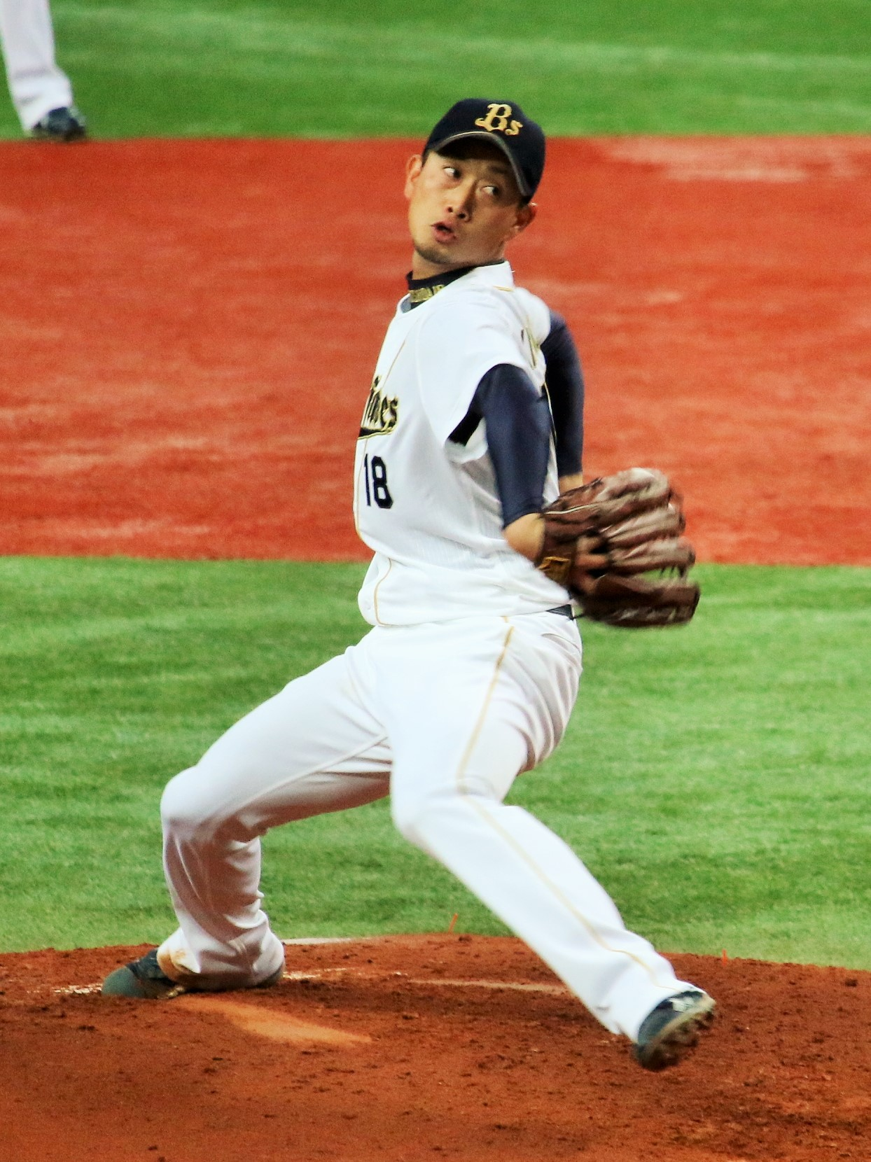 Mamoru Kishida, pitcher of the Orix Buffaloes, at Osaka Dome.